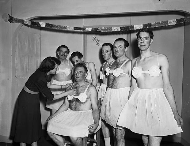 Teitl Cymraeg/Welsh title: "Dawnswyr Bale" o Sentinel, yr Amwythig Ffotograffydd/Photographer: Geoff Charles (1909-2002) Dyddiad/Date: 1/12/1953 Cyfrwng/Medium: Negydd ffilm / Film negative Cyfeiriad/Reference: (gch05418) Rhif cofnod / Record no.: 3367581 Rhagor o wybodaeth am gasgliad Geoff Charles yn Llyfrgell Genedlaethol Cymru More information about the Geoff Charles Collection at the National Library of Wales Mae ffotograffau Geoff Charles hefyd yn rhan o Broject Europeana Libraries Geoff Charles' photographs also form part of the Europeana Libraries Project